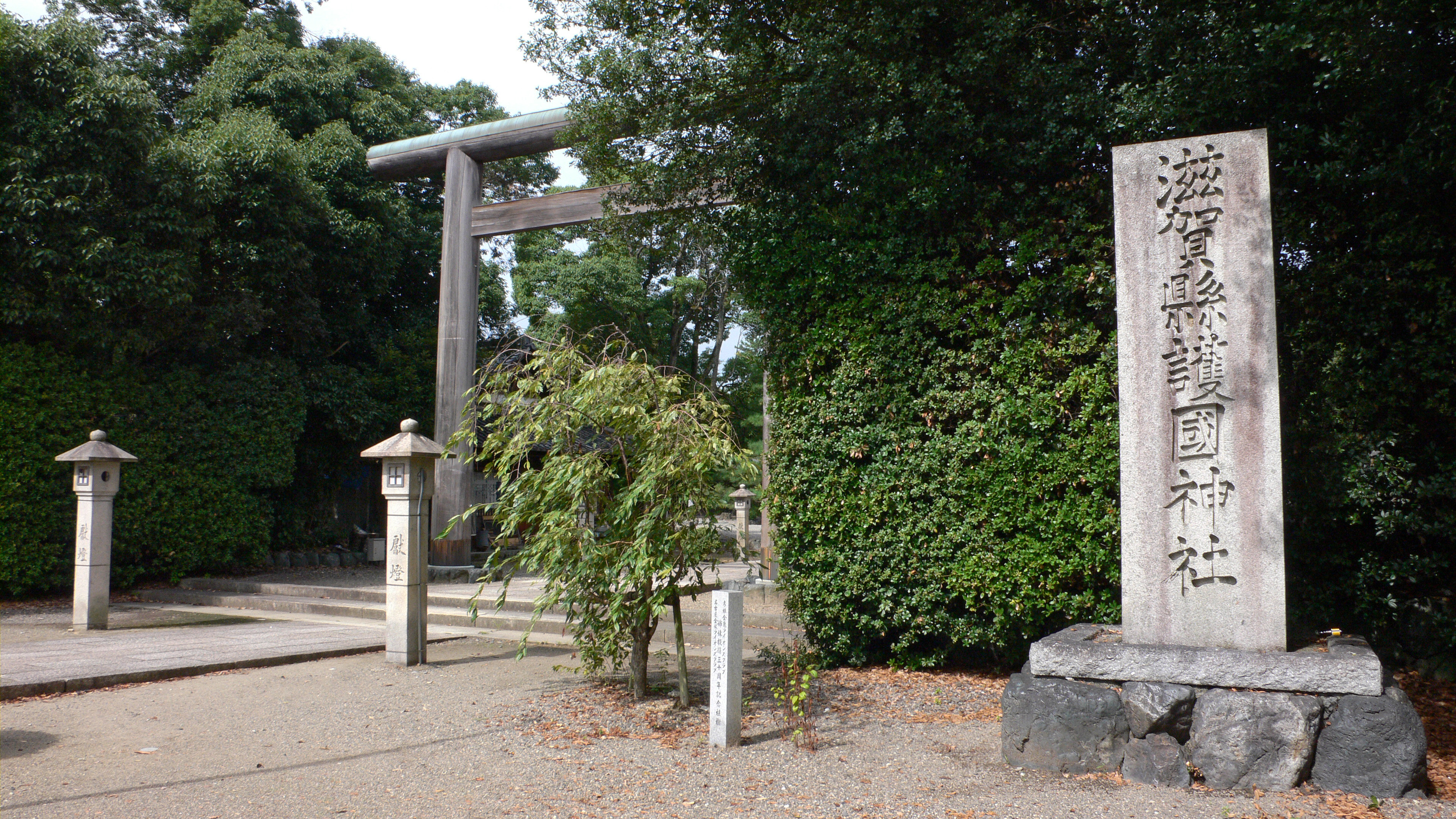 Shigaken-gokoku-jinja in Hikone, Shiga prefecture, Japan